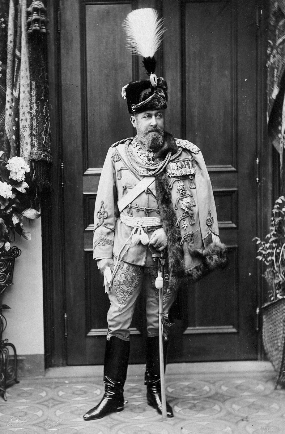 Alfred, Duke of Saxe-Coburg and Gotha